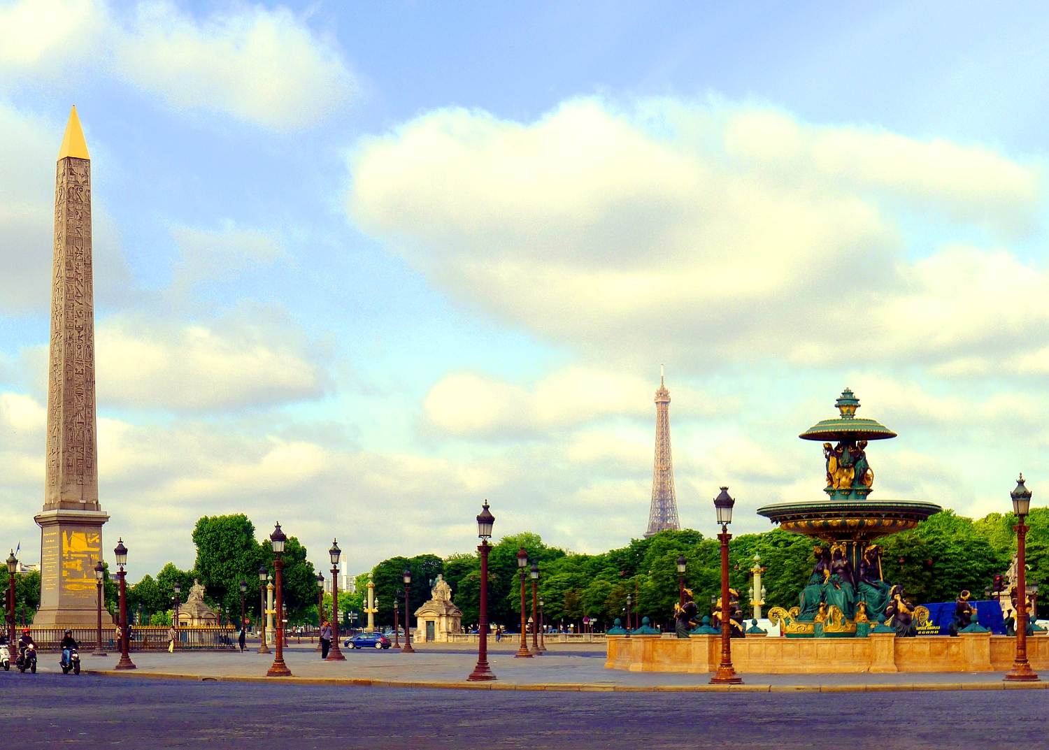 Concorde place - Paris